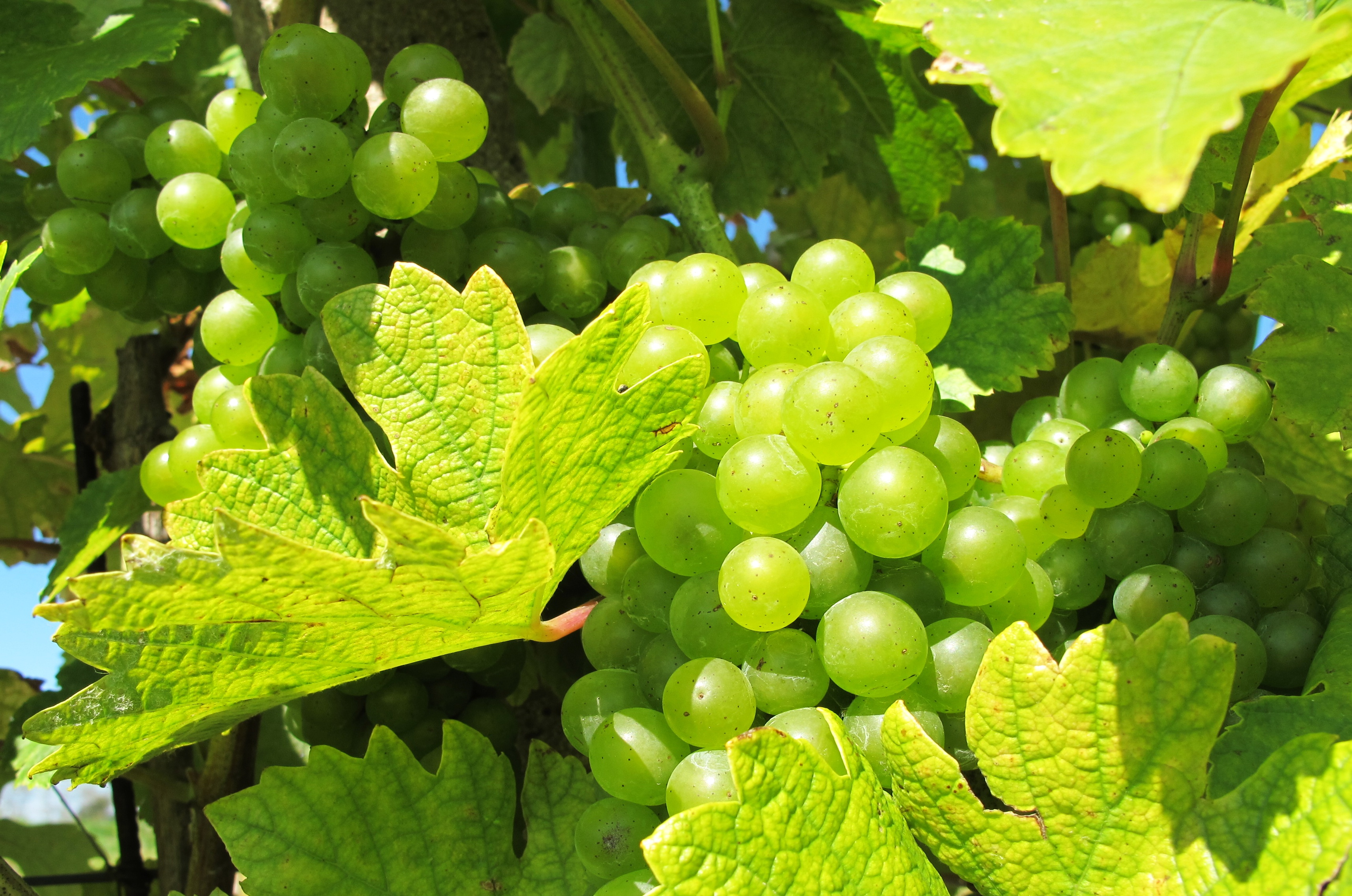 Grapes between Klentnice and Pavlov, Břeclav District